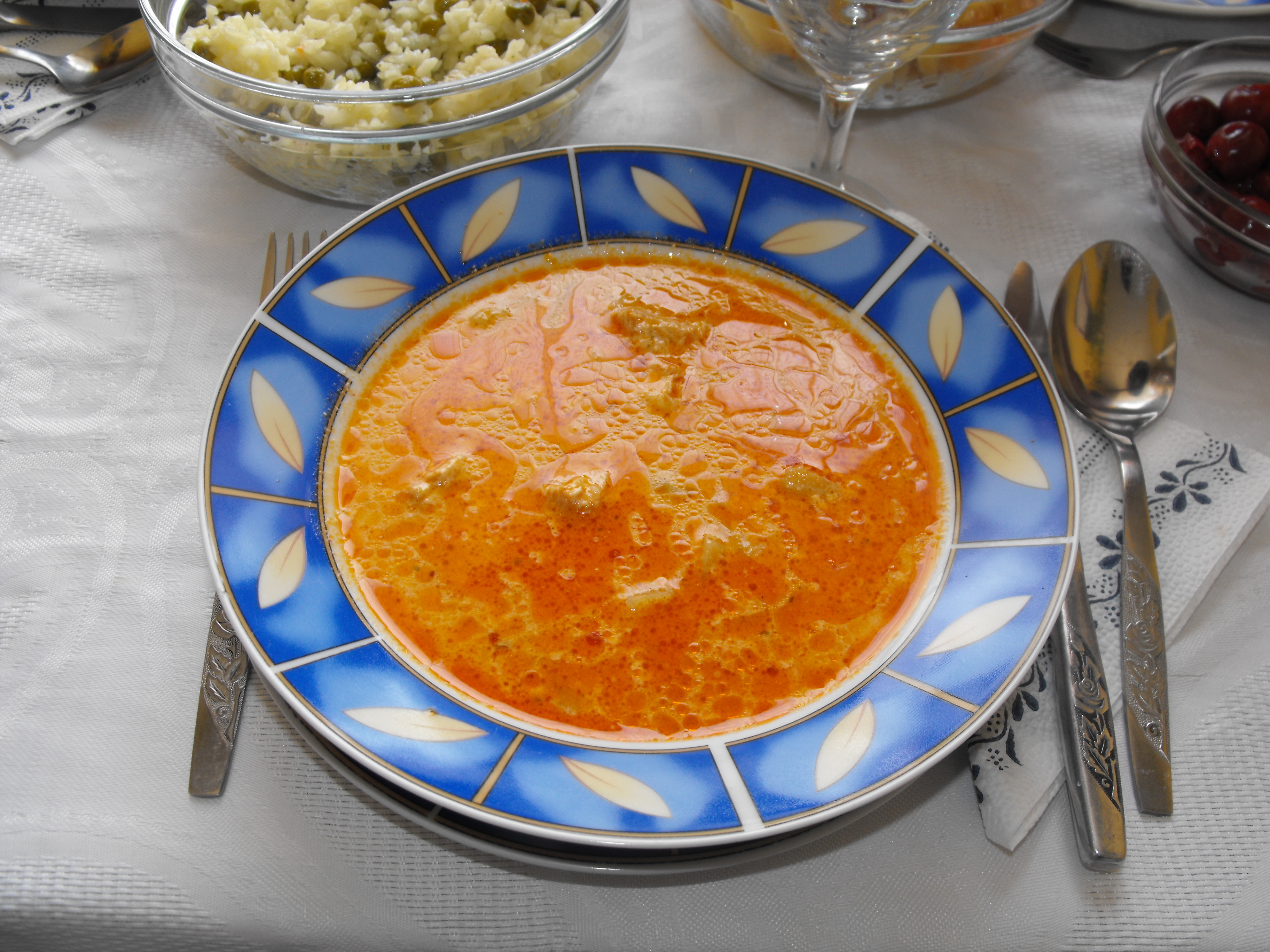 Palóc soup, a traditional Hungarian dish.